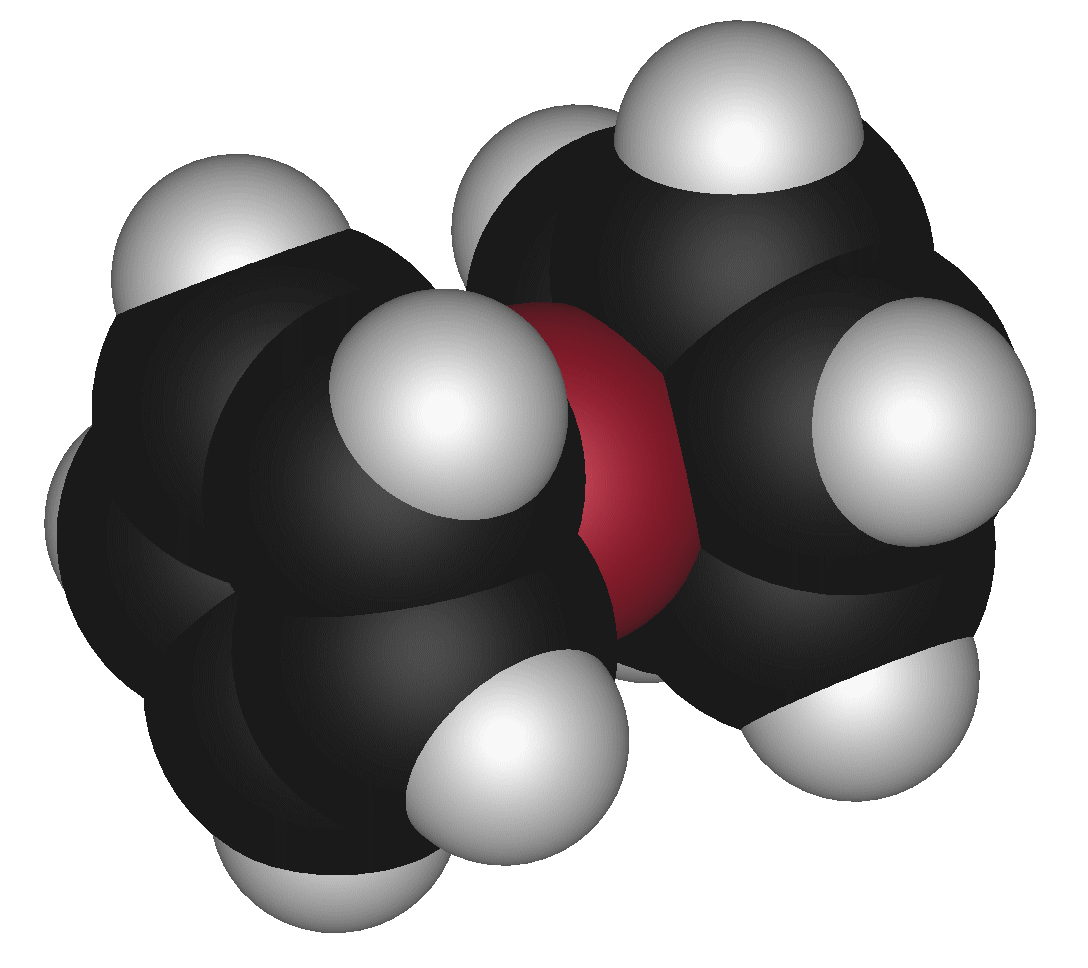 A 3D-model of a ferrocene molecule. Created by Michael Ströck on February 1, 2006. Licensed under the GFDL.